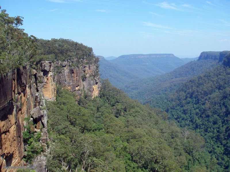 A Panoramic View of a valley of the Morton National Park, Southern Highlands, NSW, Aus.